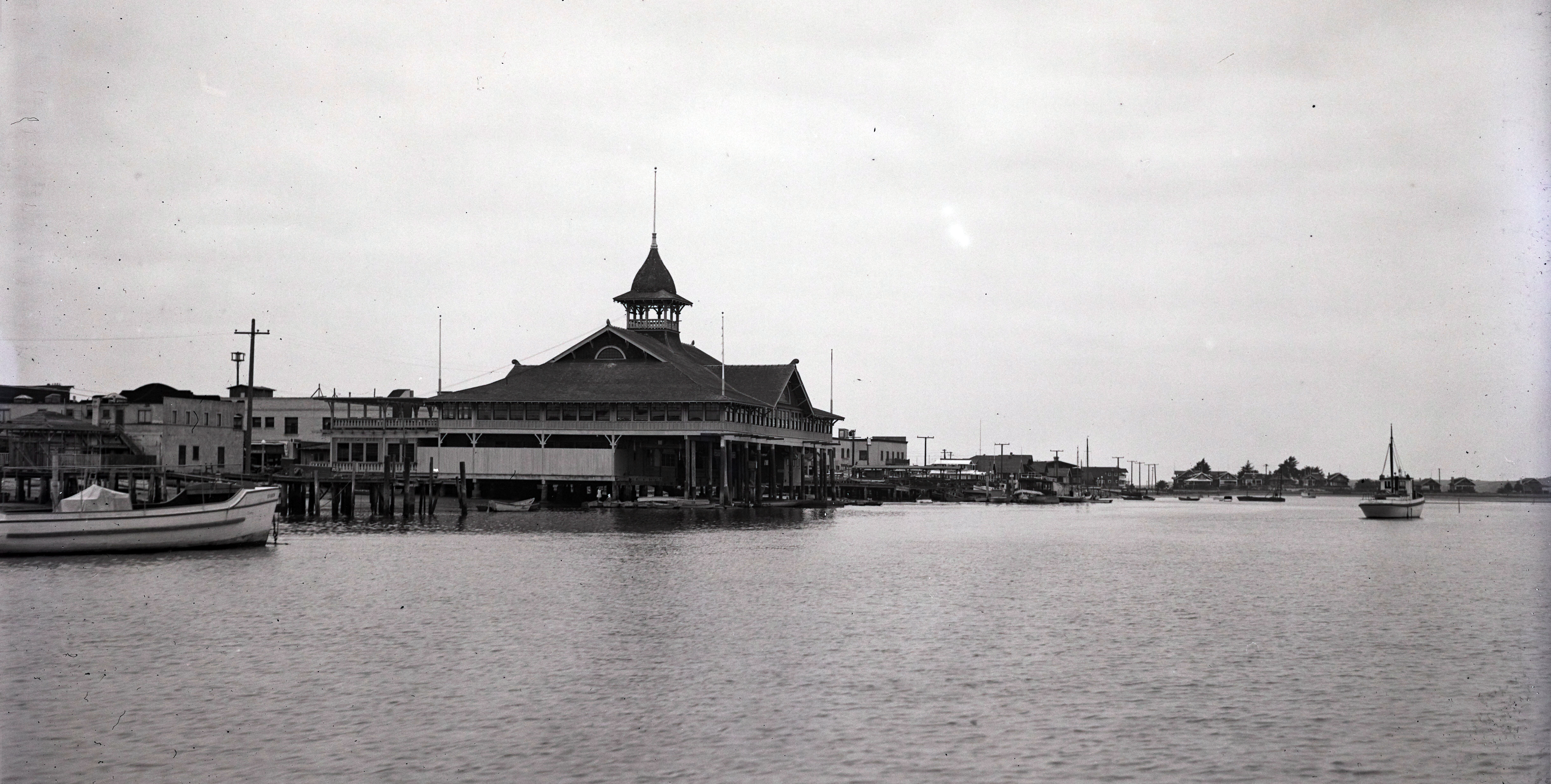 Title: Side angled view of Balboa pavilion and surrounding docks in Newport Beach, Calif., circa 1924 Publication:Los Angeles Times Publication date:1924 Subjects: Balboa (Newport Beach, Calif.) Source:Los Angeles Times photographic archive, UCLA Library Note about non-renewal of copyright: [1]